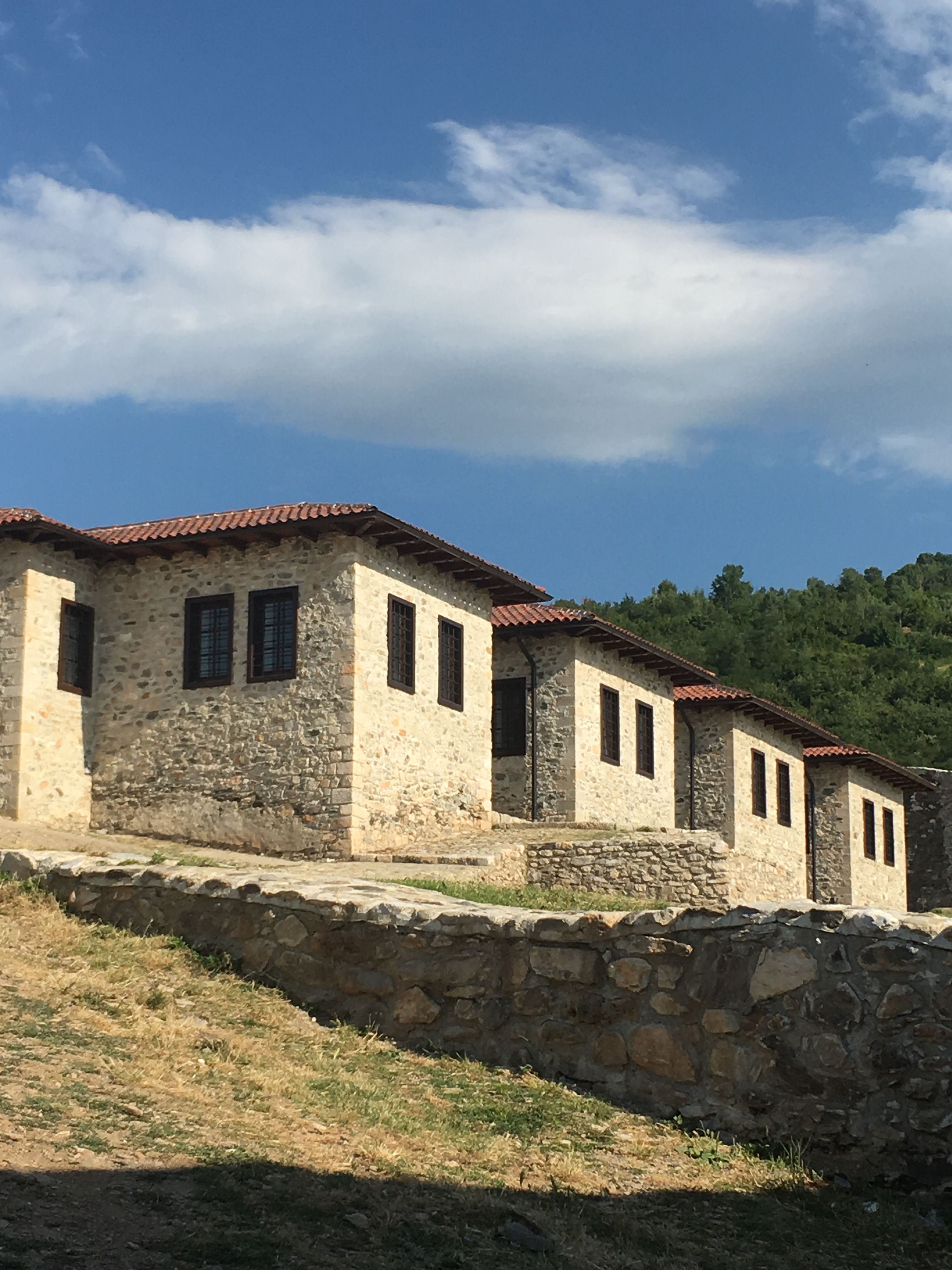 Fortreas Prizren